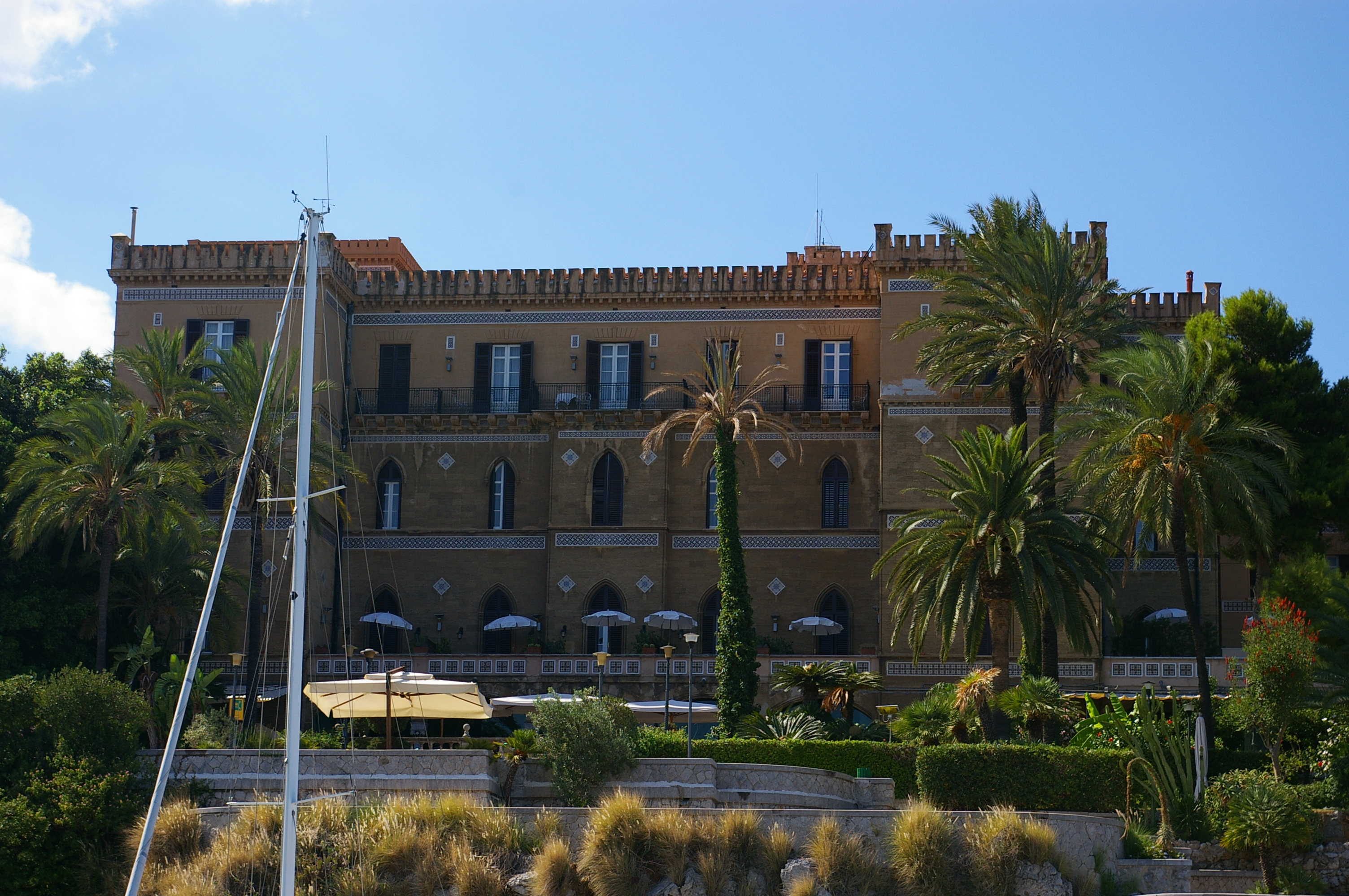 Villa Igiea, view from the harbour